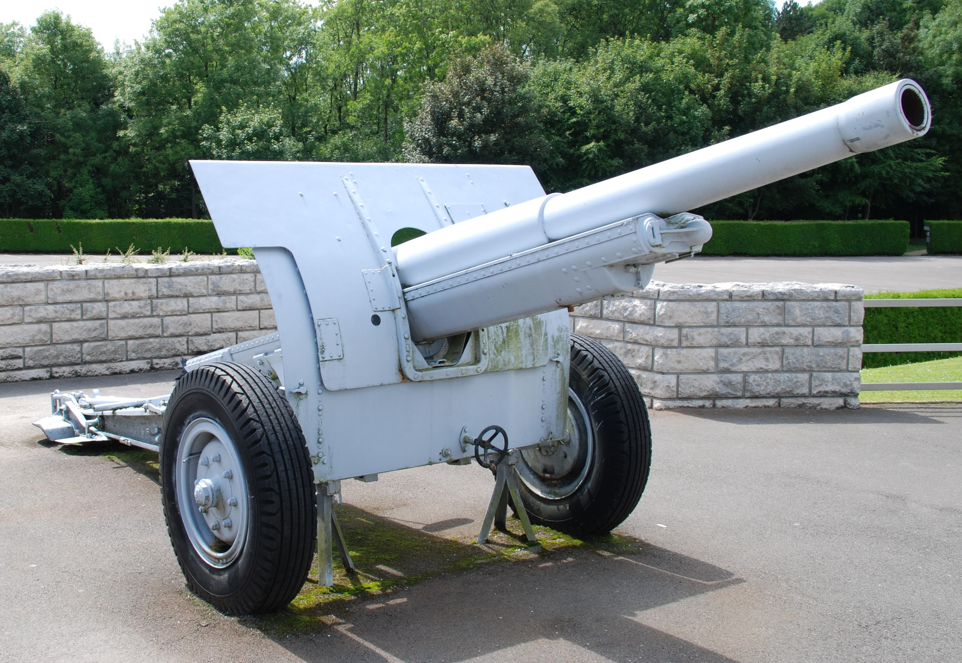 French cannon 105 mm Schneider Modele 1913; the Verdun Memorial, Fleury-devant-Douaumont, France